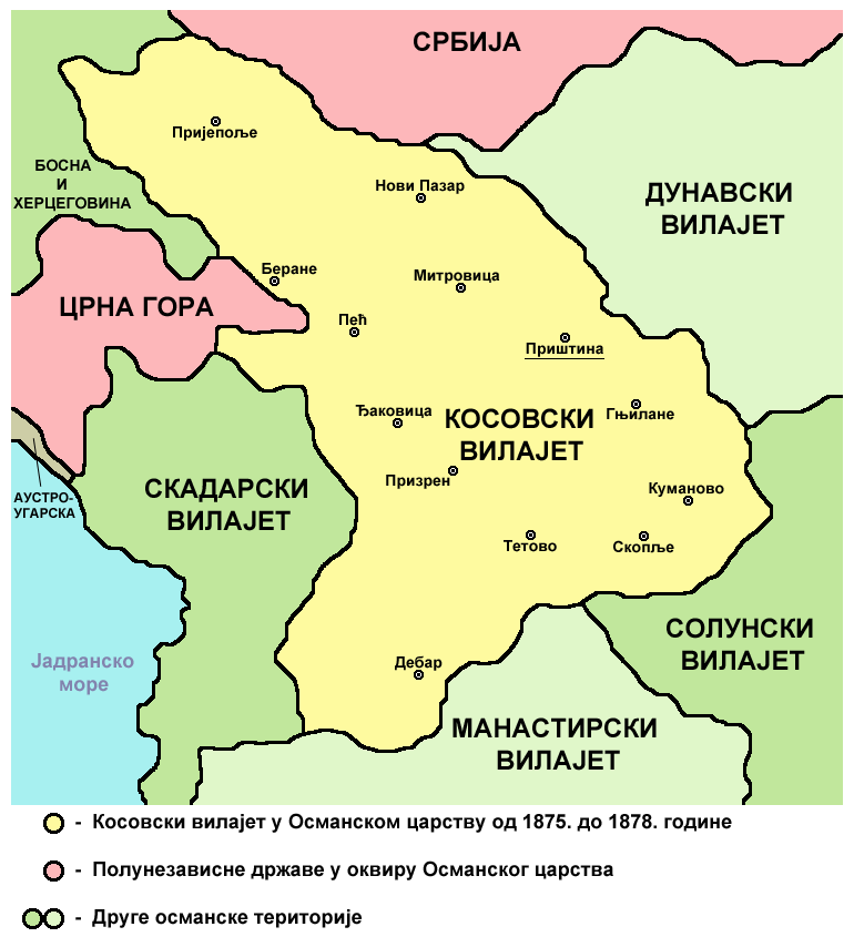 Vilayet of Kosovo within Ottoman Empire from 1875 to 1878.